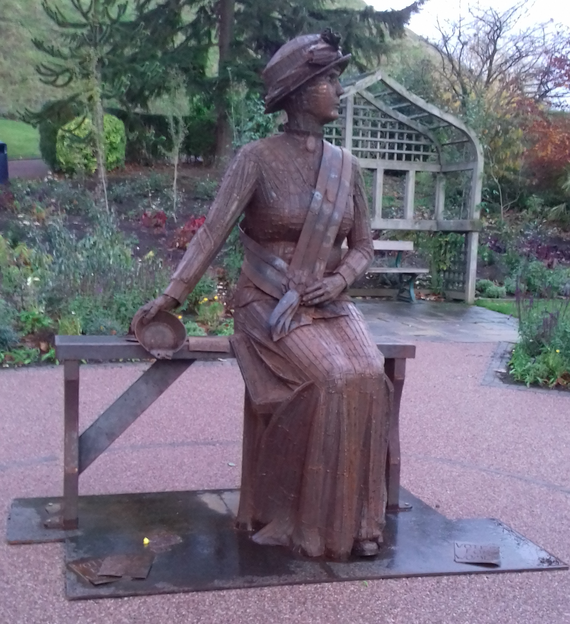 A statue of Emily Wilding Davidson in Morpeth, Northumberland